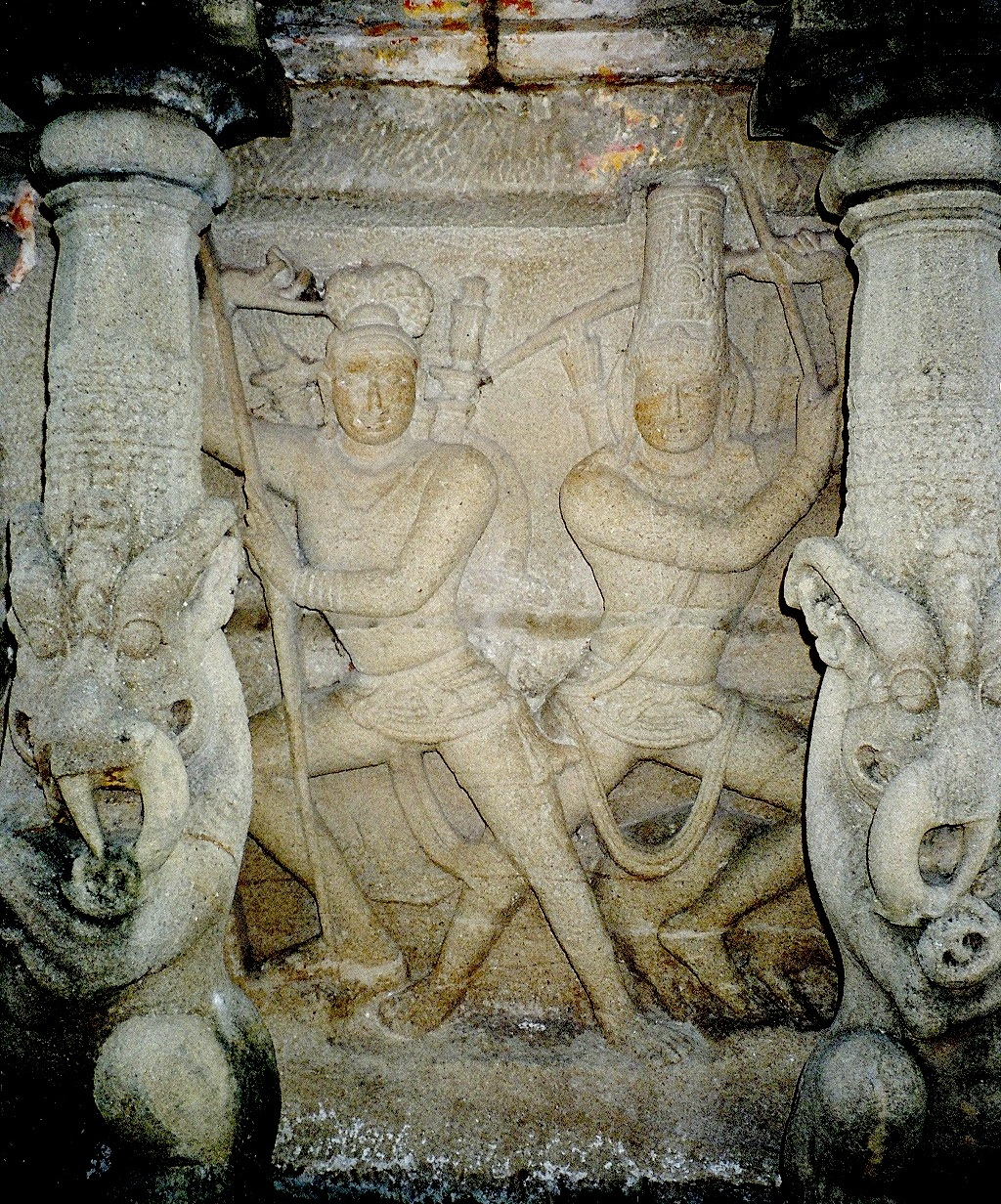 SHIVA Kiratarjuna [boar partly hidden behind trunked yazhi] Kailas, Kanchipuram